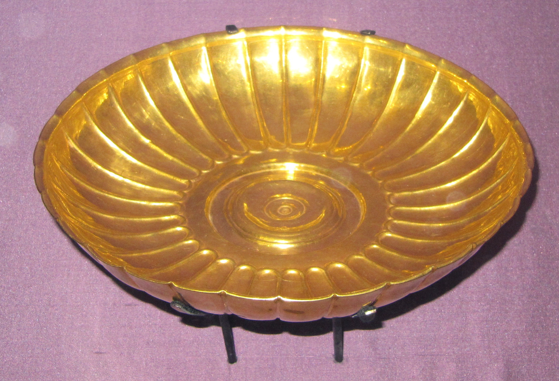 Phial (bowl), Tillya Tepe, Tomb IV, second quarter of the 1st century A.D., Gold, National Museum of Afghanistan, Personal photograph 2011, British Museum.